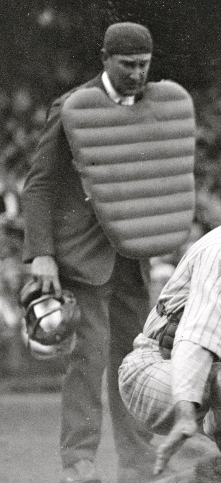 Umpire Dick Nallin watching Lou Gehrig slide safely into home at Griffith Stadium, August 16, 1925. Photo courtesy of the Library of Congress. This file has been extracted from another file: Lou Gehrig 1925.jpg